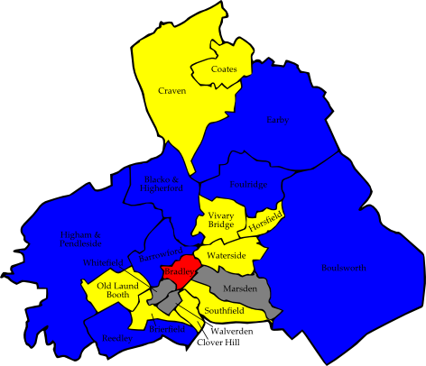 A map of the results of the 2007 Pendle Council election. Colour legend by wards won: Liberal Democrats Conservative party Labour party Wards in grey were not contested in 2007.